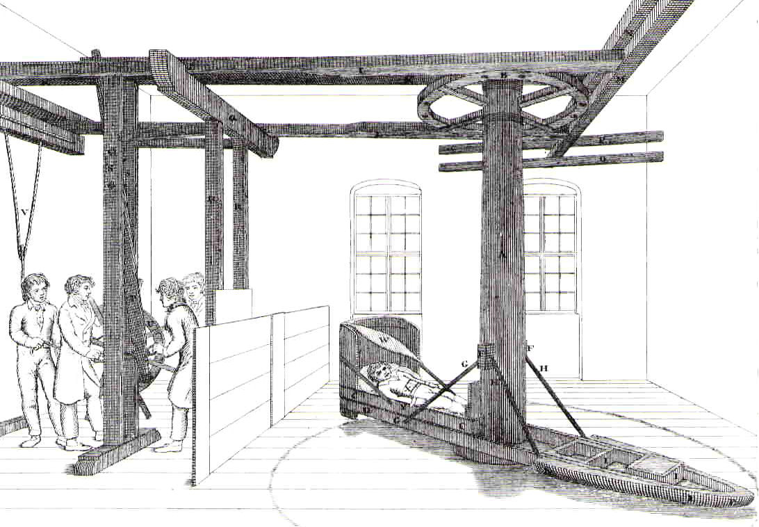 Rotating board for treatment in psychiatry, 19th century.